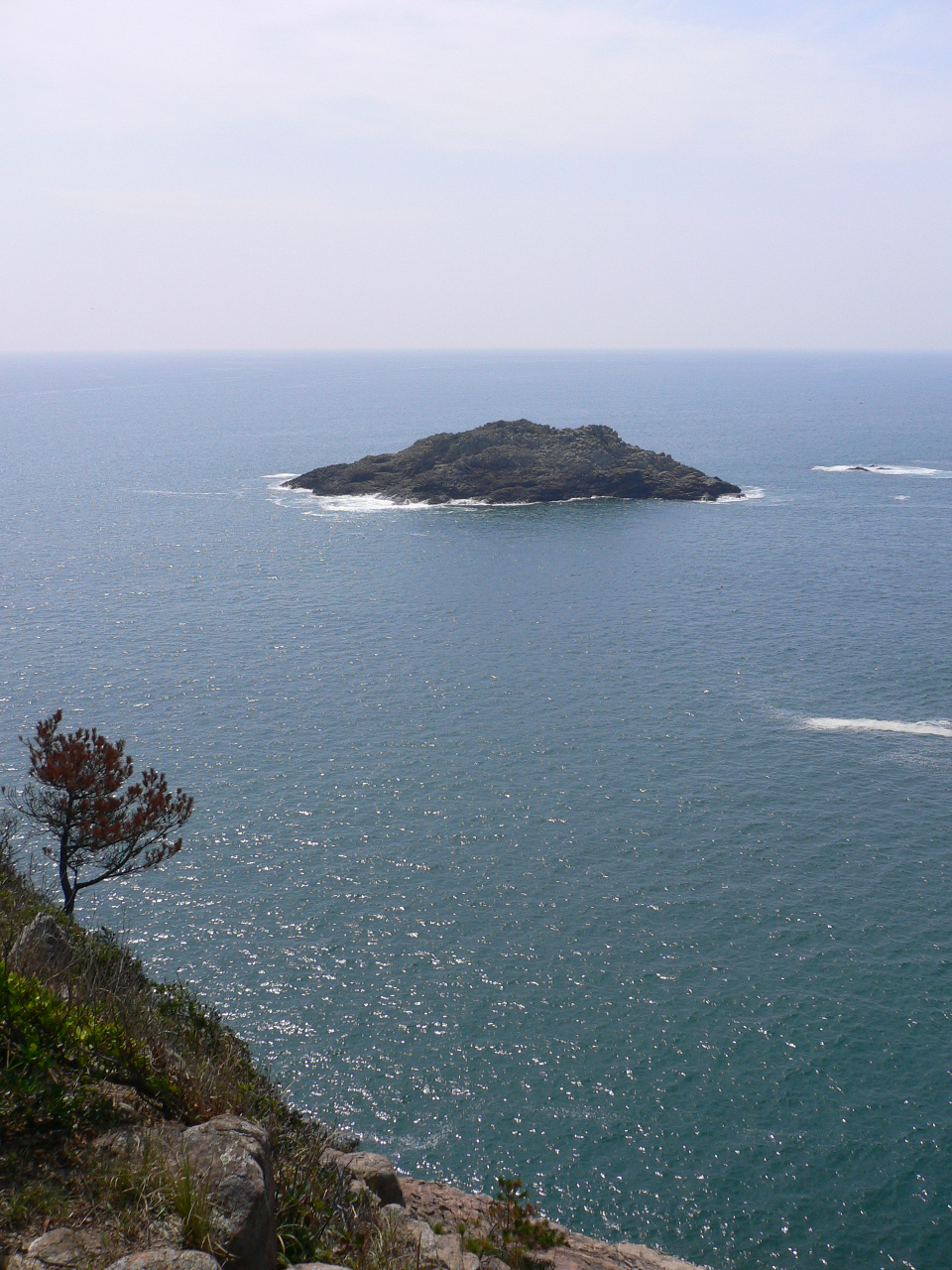 The Sea of Hyūga and Kurobae Island at Cape Hyūga, in Hyūga, Miyazaki prefecture, Japan.